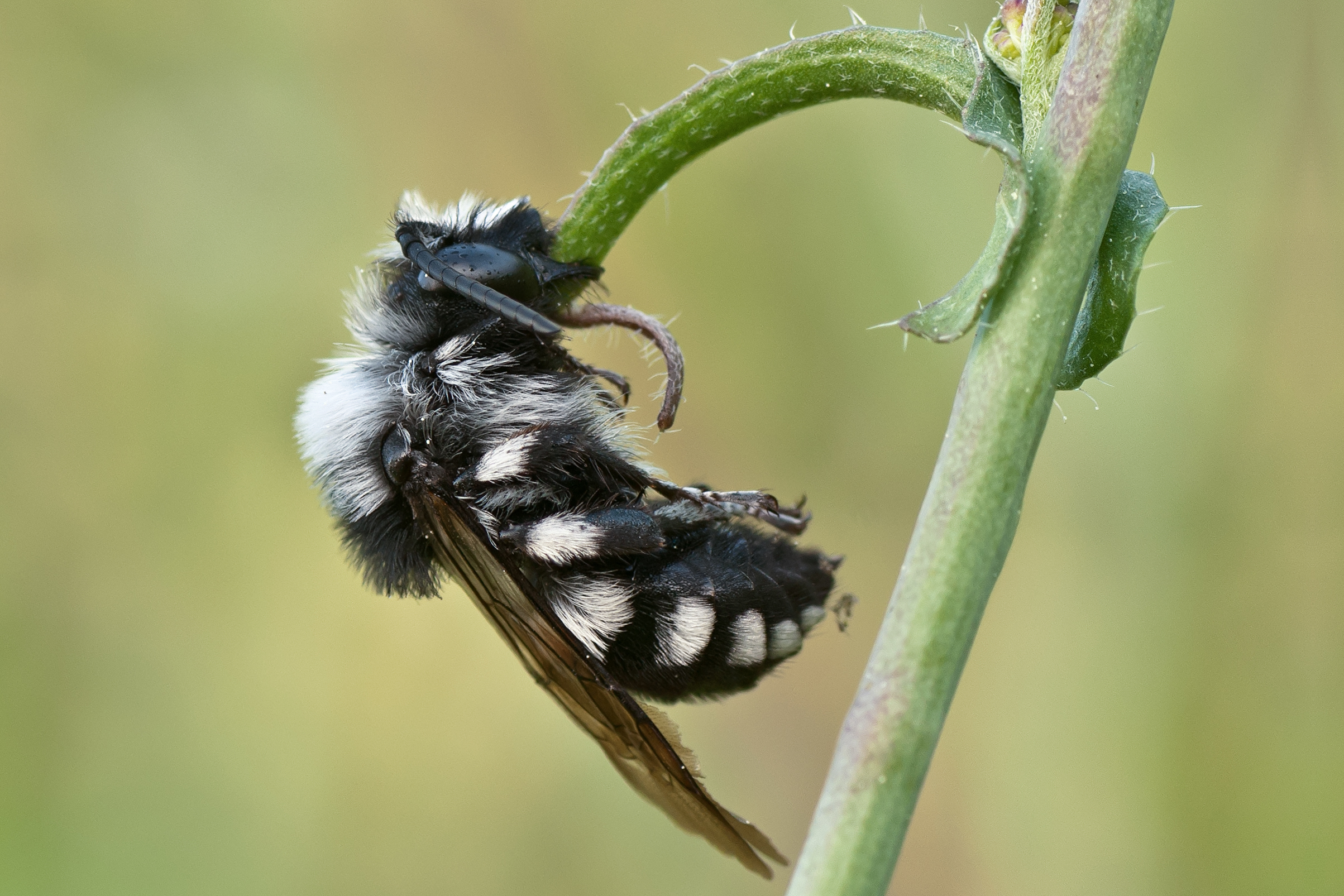 A sleeping cuckoo bee Melecta luctuosa The term cuckoo bee is used for a variety of different bee lineages which have evolved the kleptoparasitic habit of laying their eggs in the nests of other bees, reminiscent of the behavior of cuckoo birds.